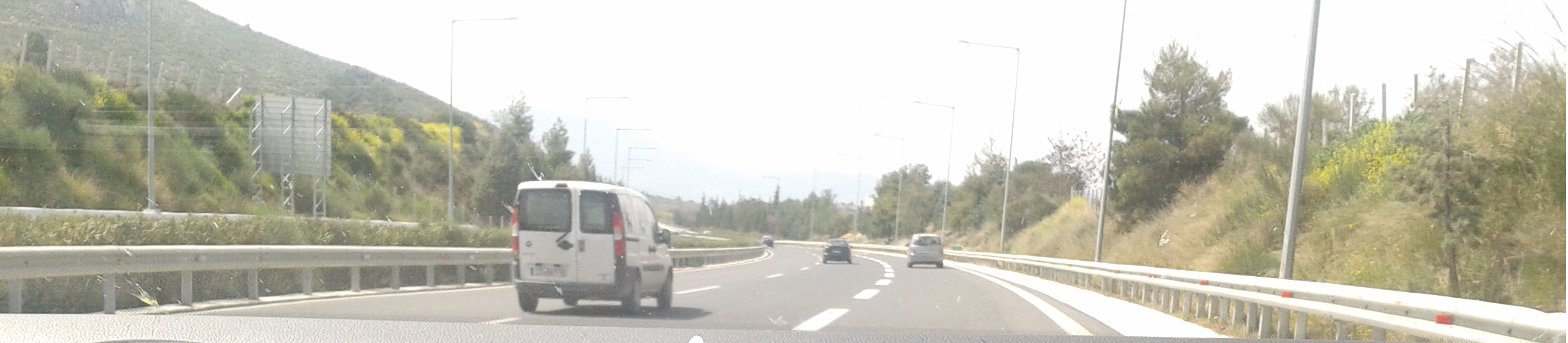 A7 Motorway, Greece